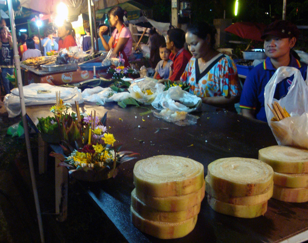 Building krathongs (floating lanterns) on the banana palm discs laying in the foreground, Loy Krathong 2008, Lamai, Koh Samui